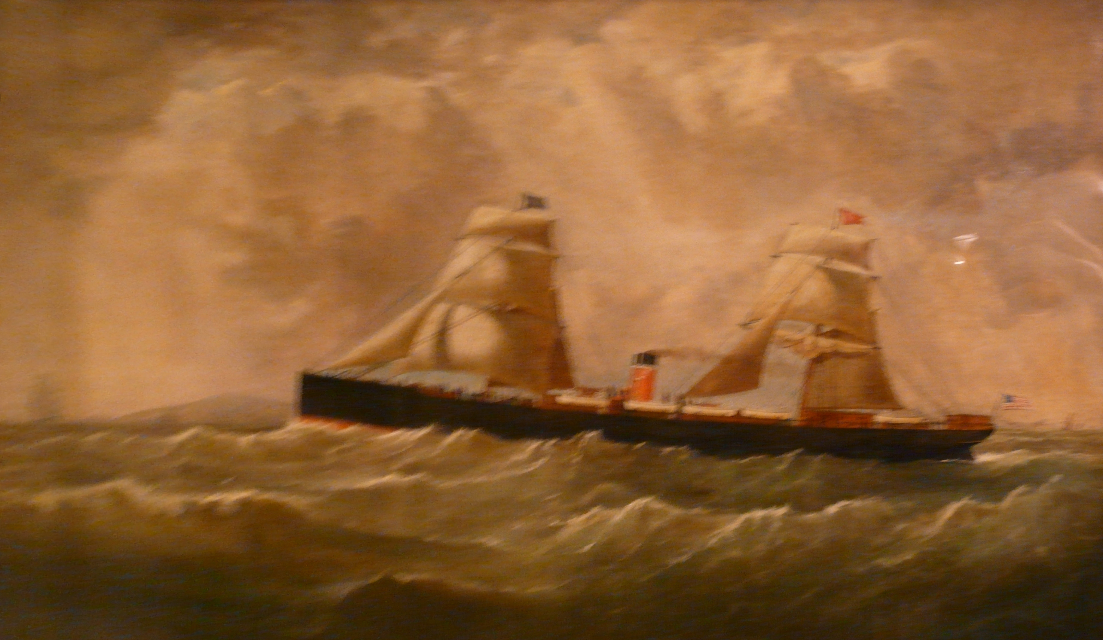 Steamship Ohio. D. C. Grose. 1874. Oil on canvas.